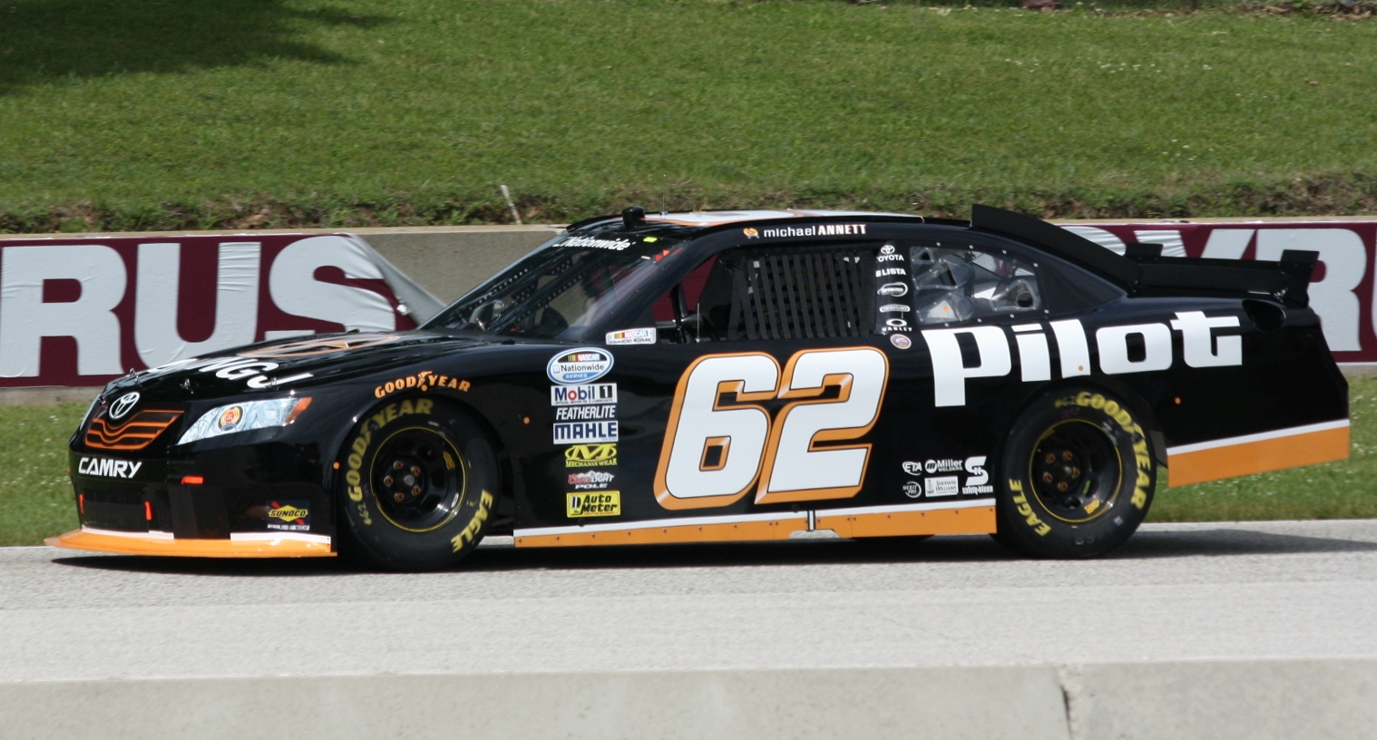 NASCAR driver Michael Annett racing his stock car at Road America at the 2011 Bucyros 200 Nationwide Series race.